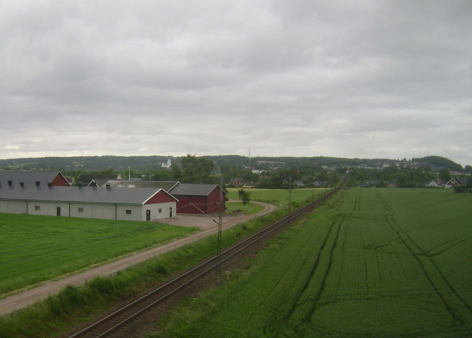 Sweden. Skåne County. Åstorp Municipality